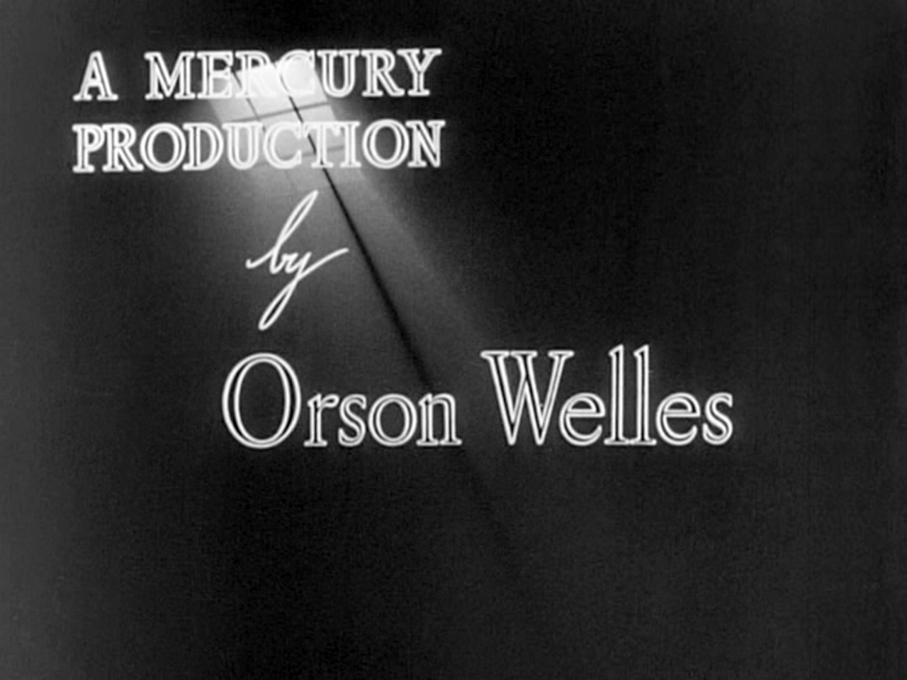 Screenshot of the production credit for the Mercury Theatre and Orson Welles from the Citizen Kane trailer